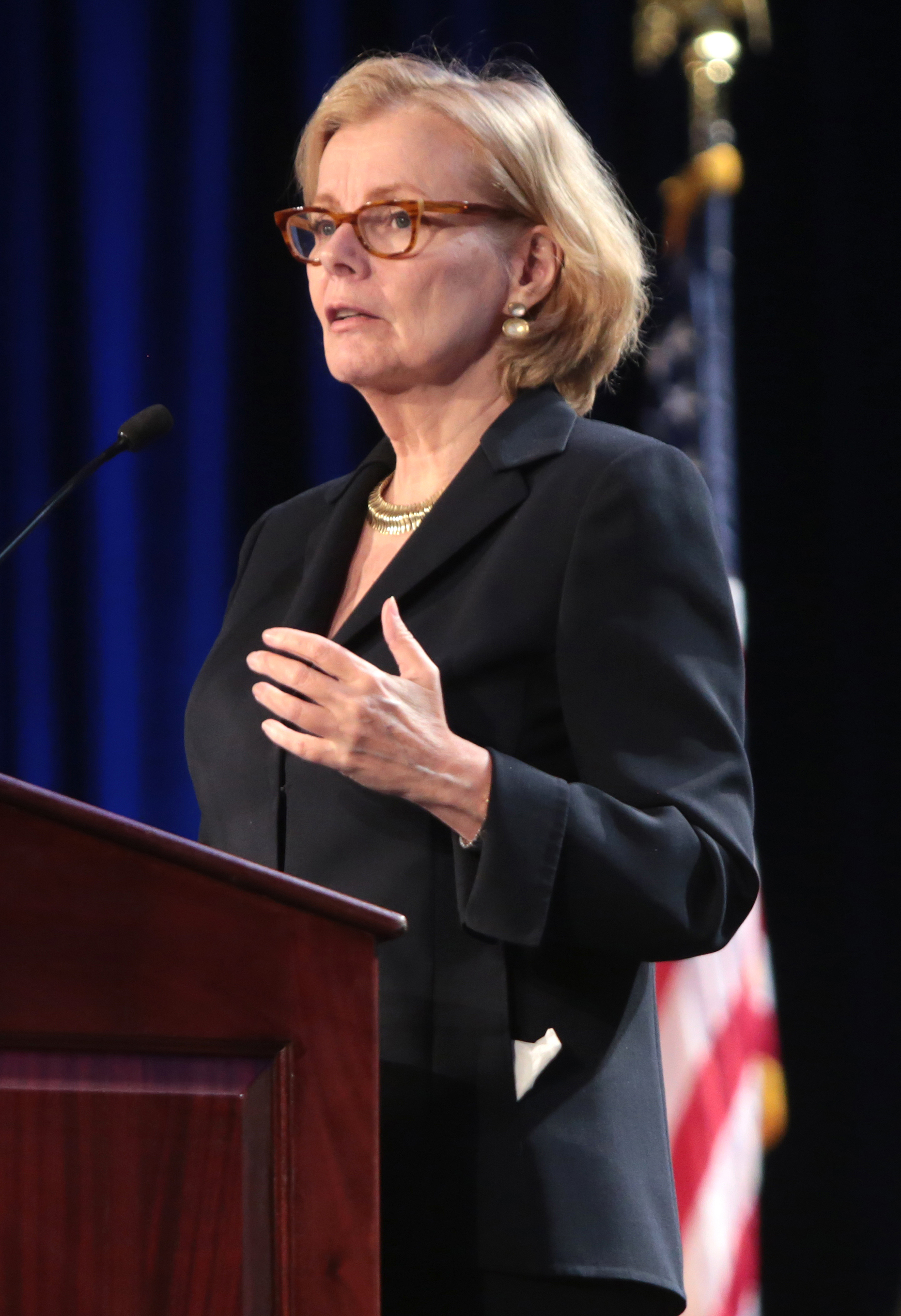 Peggy Noonan speaking in Phoenix, Arizona.